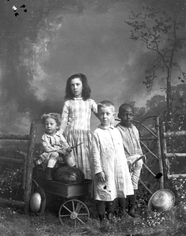 Local call number: Ha00579 Personal Author: Harper, Alvan S., 1847-1911. Title: [Children in play clothes] Date/place captured: Photographed in Tallahassee, Florida between 1885 and 1910. Physical descrip: 1 glass photonegative : b&w ; 10 x 8 in. Series Title: (Alvan S. Harper collection.) Repository: 500 S. Bronough St., Tallahassee, FL 32399-0250 USA. Contact: 850-245-6700. Persistent URL